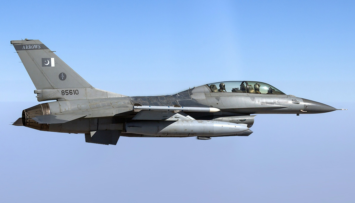 Pakistan Air Force F-16BM Fighting Falcon in flight